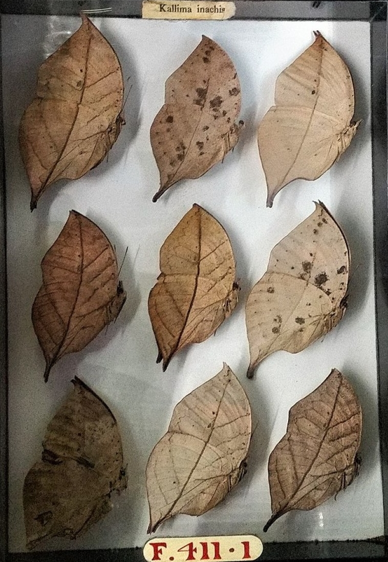 Different Kallima inachus specimens from the Hunterian Museum at the Royal College of Surgeons of England.